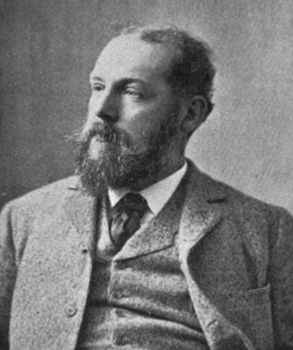 Hjalmar Hjorth Boyesen